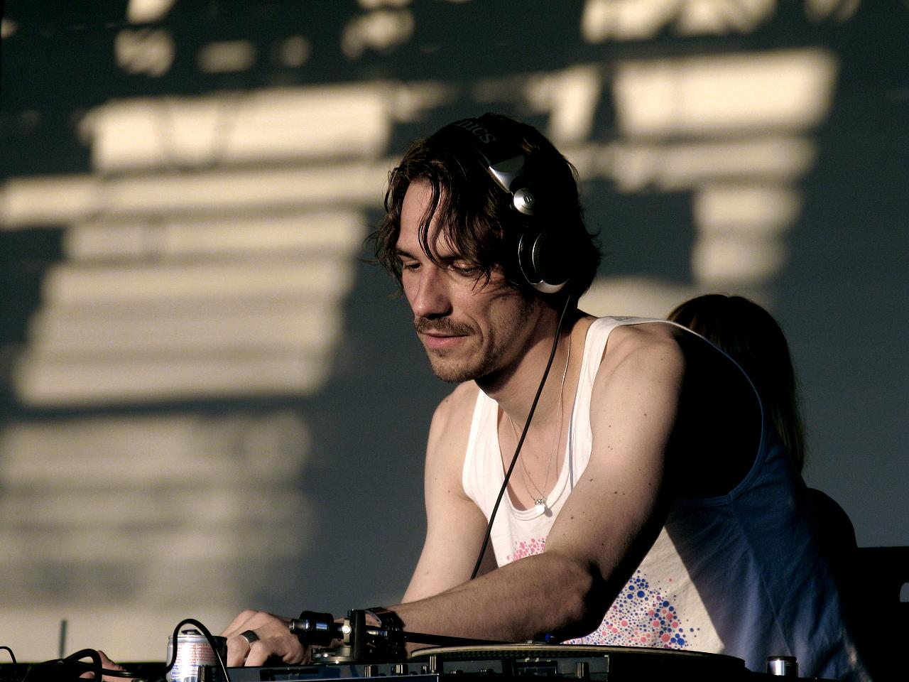 Sascha Funke at Melt Festival 2008